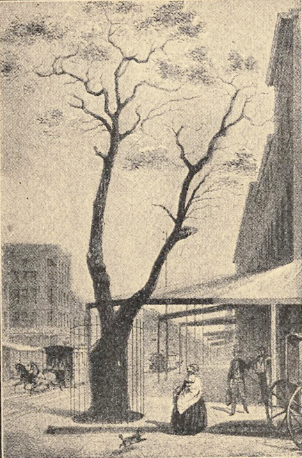 Pear tree planted by Peter Styvesant